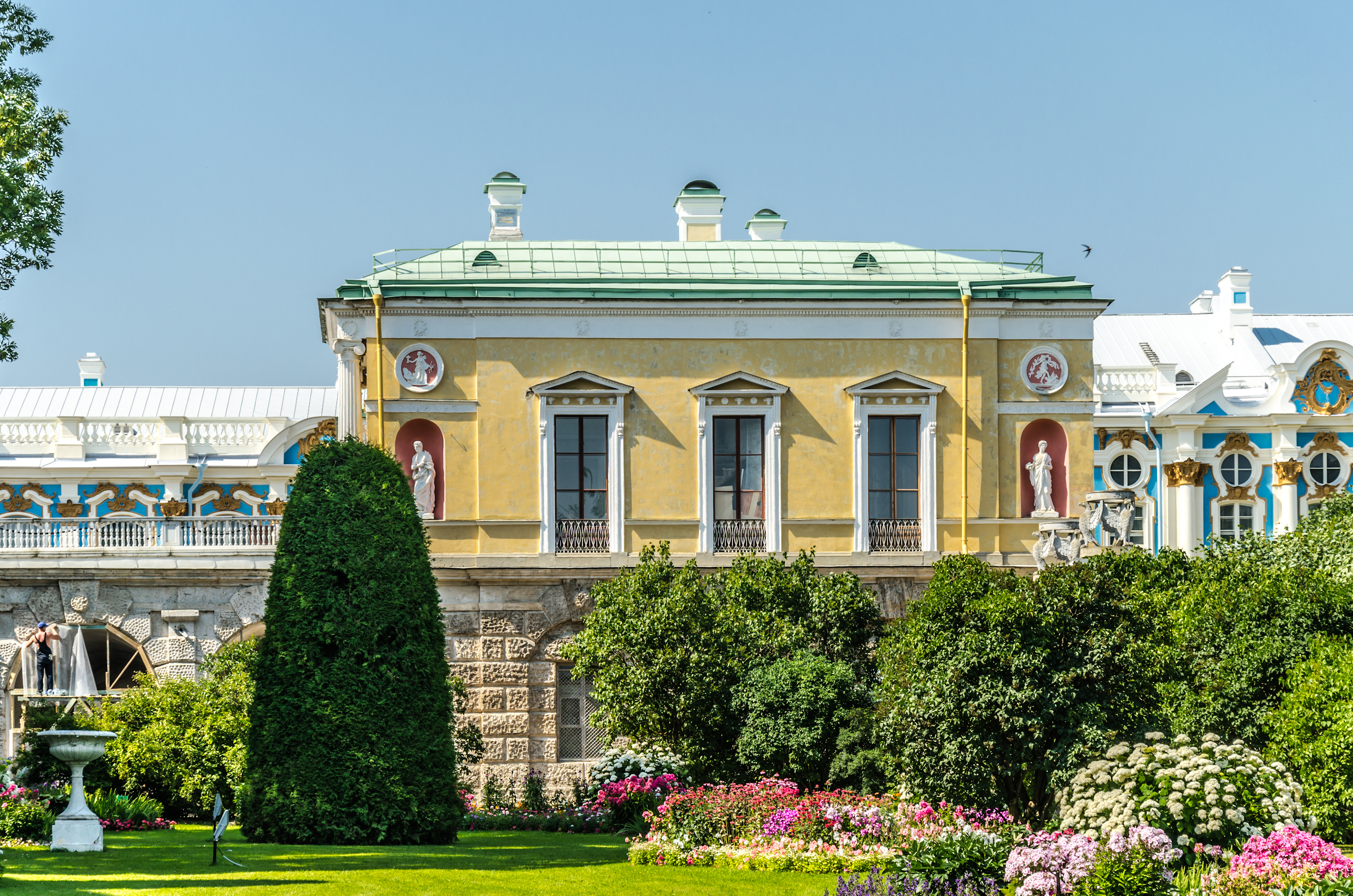 Agate chambers in Catherine park of Tsarskoe Selo, Saint Petersburg